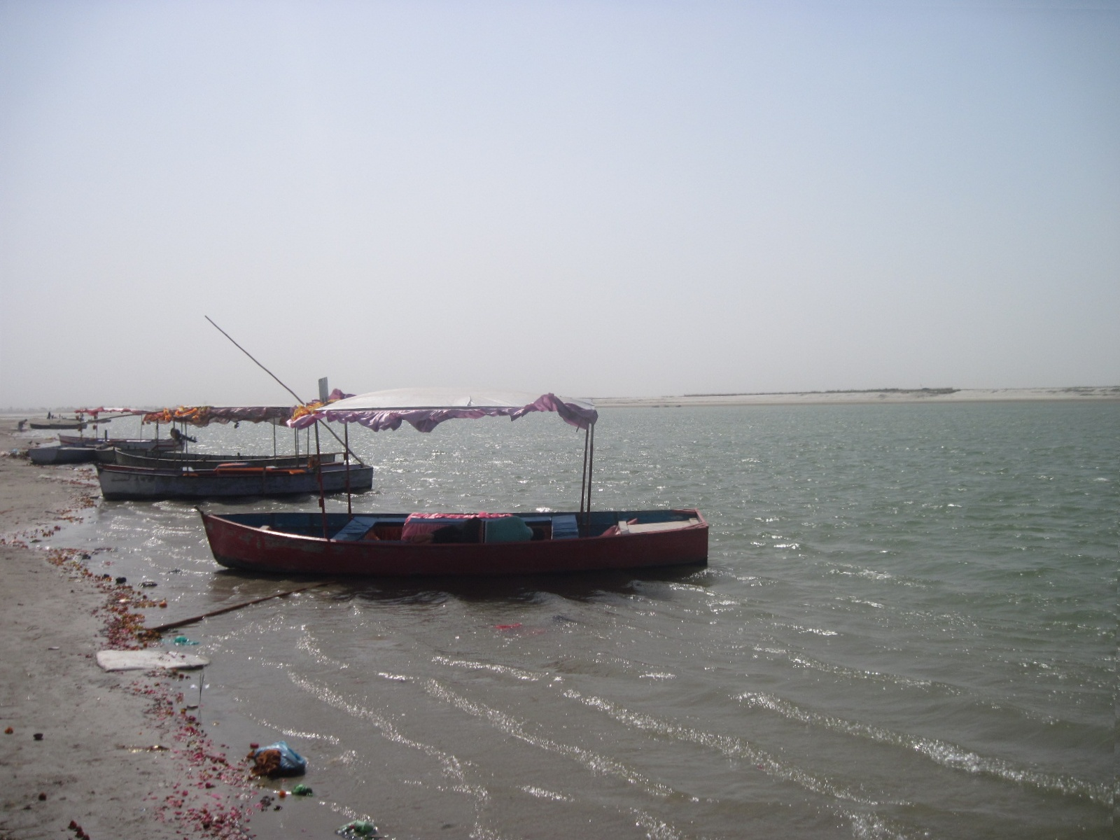 Ghaghra River (localy know as saryu) at Guptar Ghat, Faizabad Cantt.